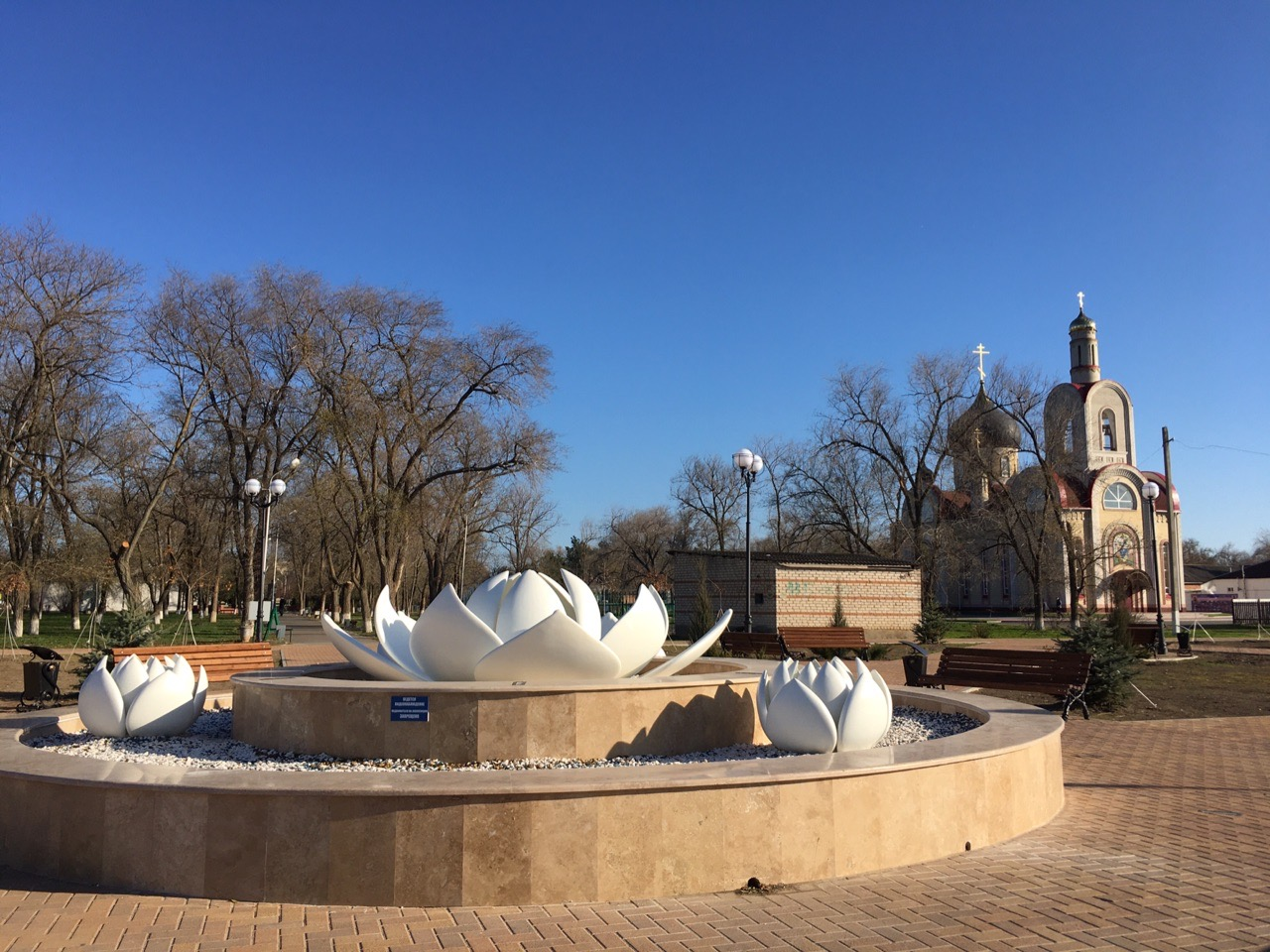 Fontan s vidom na pravoslany hram v Gorodovikovske